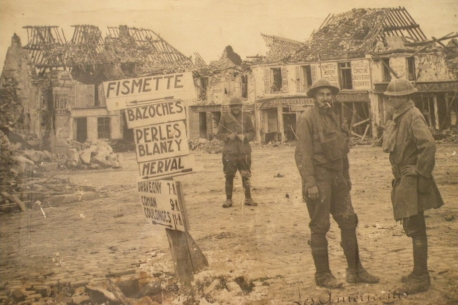 Americans troops in Fismette around 14 September 1918